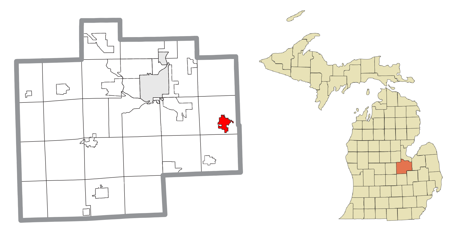 Frankenmuth, MI